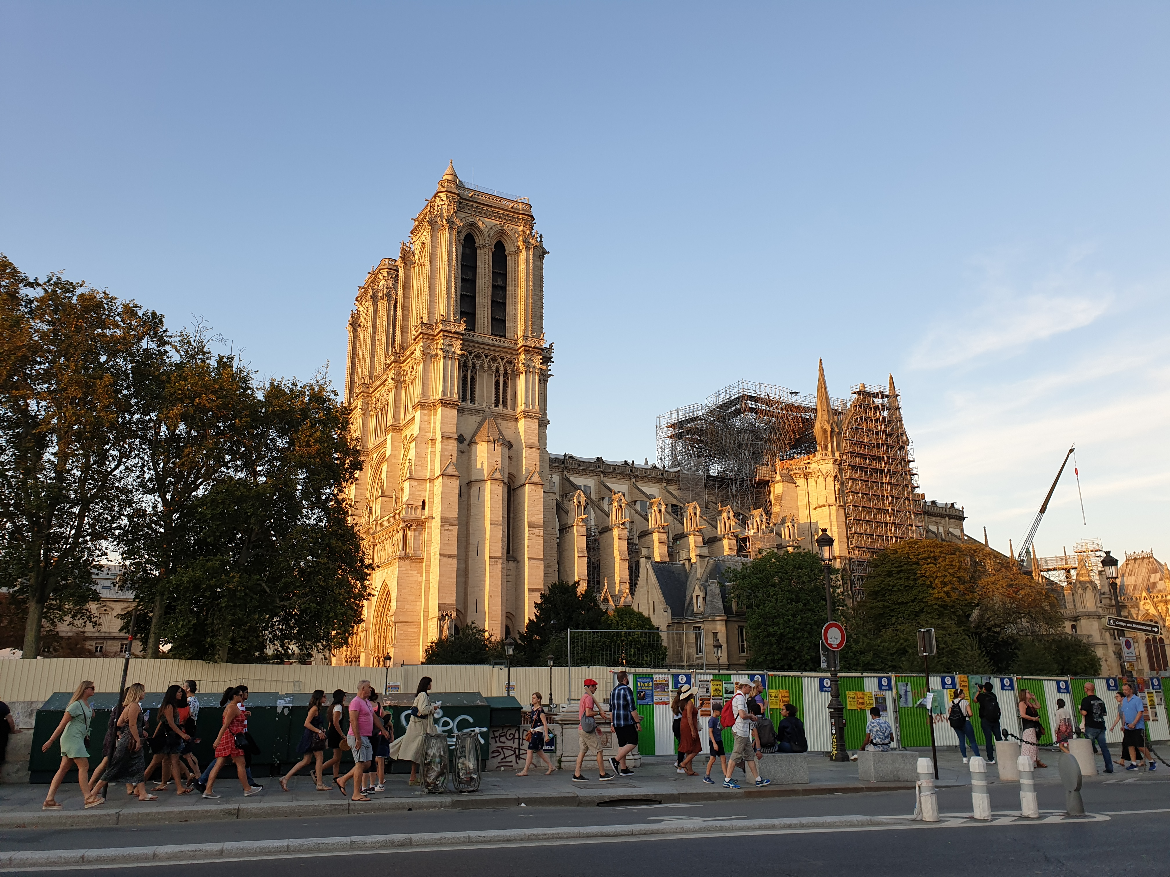 Building site of Notre-Dame de Paris